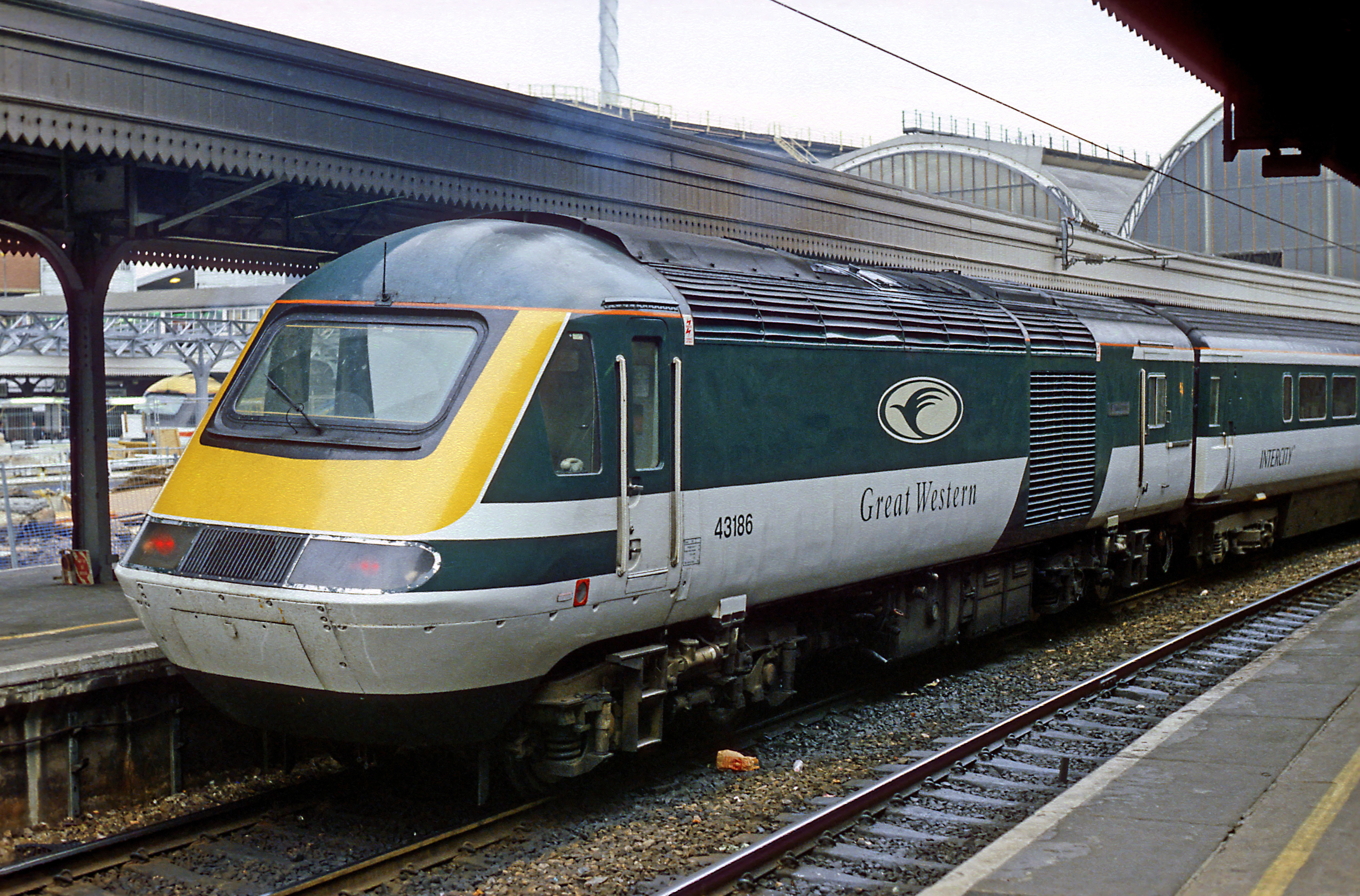 At the time of taking the photo, few units in traffic have the new Great Western livery